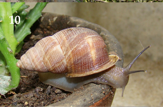 Photo of Scutalus mariopenai.